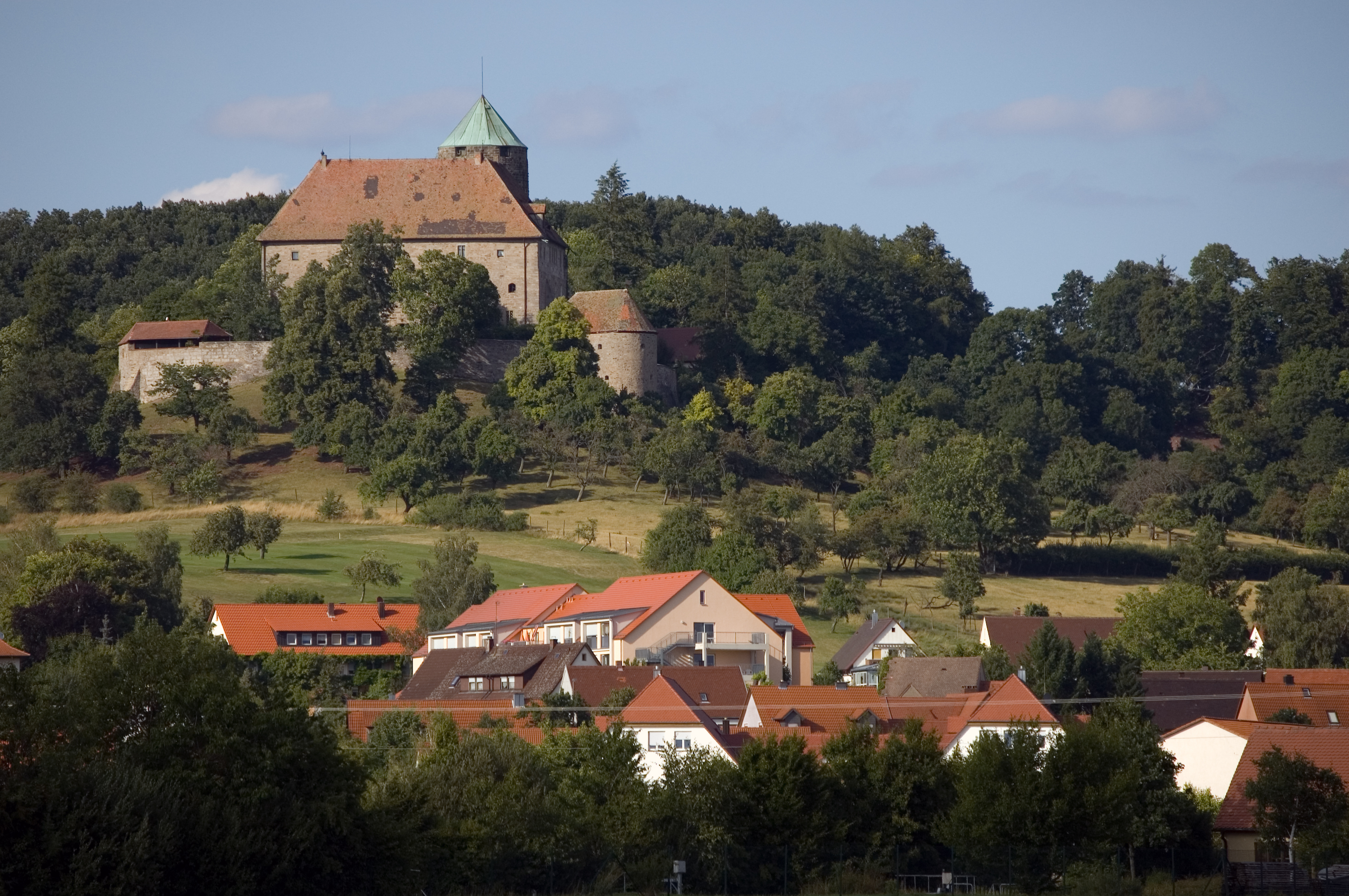 castle Colmberg above Colmberg, Bavaria, Germany Camera: Nikon D50 Lens: AF-S DX Zoom-Nikkor 55-200 mm 1:4-5,6G ED